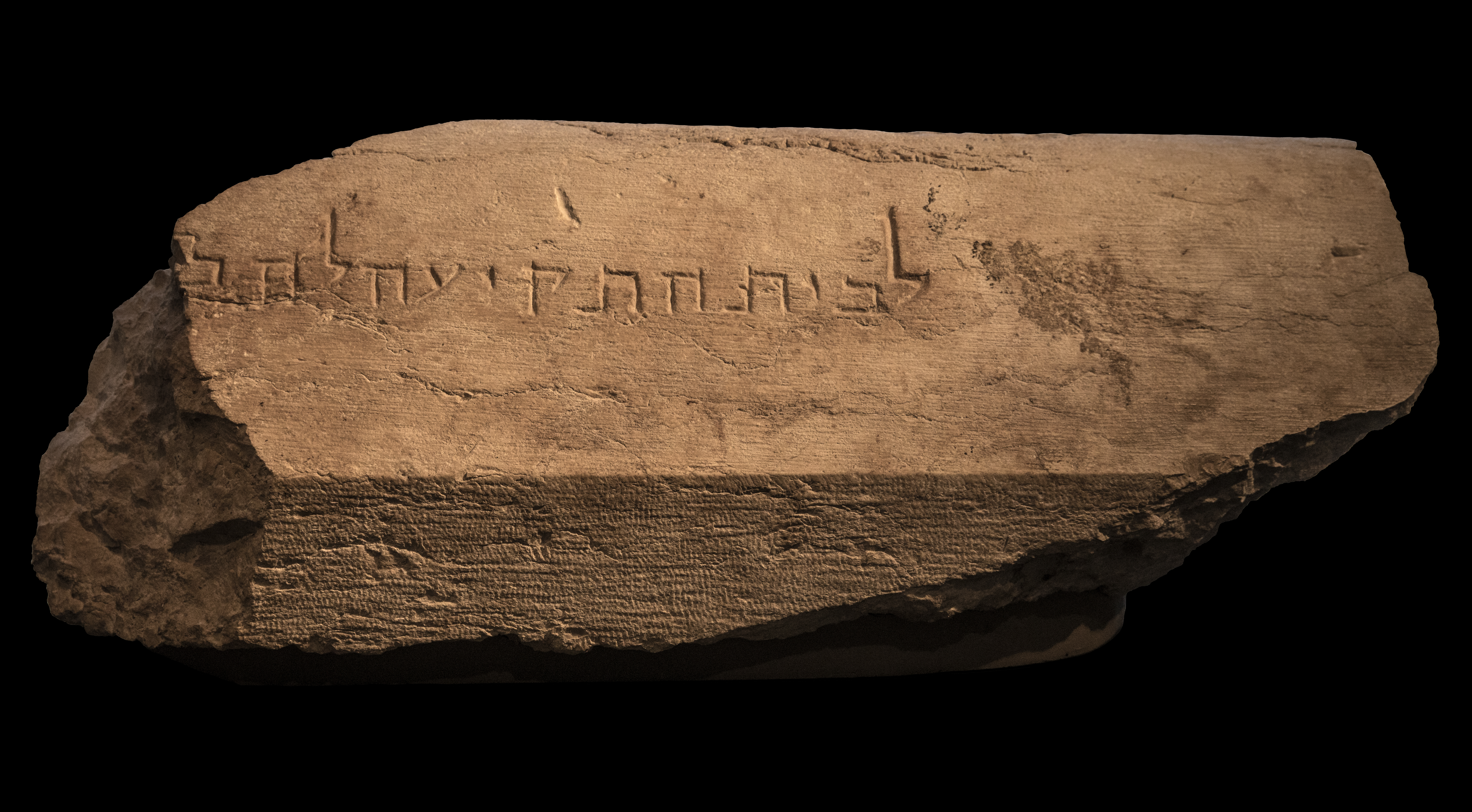 The Trumpeting Place inscription is an inscribed stone from the 1st century CE discovered in 1968 by Benjamin Mazar in his early excavations of the southern wall of the Temple Mount. The stone, showing just two complete words written in the Square Hebrew alphabet, was carved above a wide depression cut into the inner face of the stone. The first word is translated as "to the place" and the second word "of trumpeting" or "of blasting" or "of blowing", giving the phrase "To the Trumpeting Place". The subsequent words of the inscription are cut off. Present location Israel Museum (Identification IAA 78-1439). Material: Basalt. Size L: 84 cm; H: 31 cm; W 26 cm